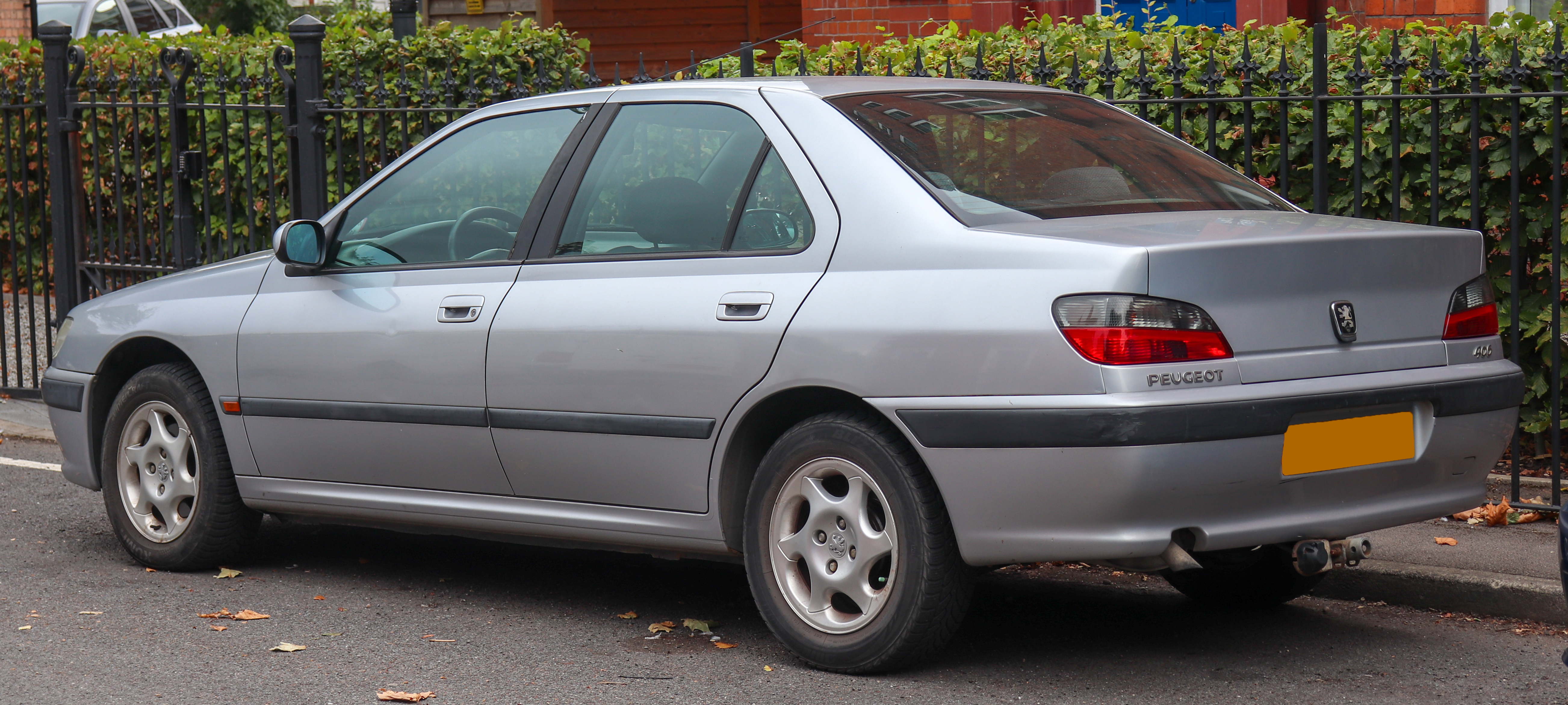 1998 Peugeot 406 (LHD Import) 2.1 Rear Taken in Leamington Spa